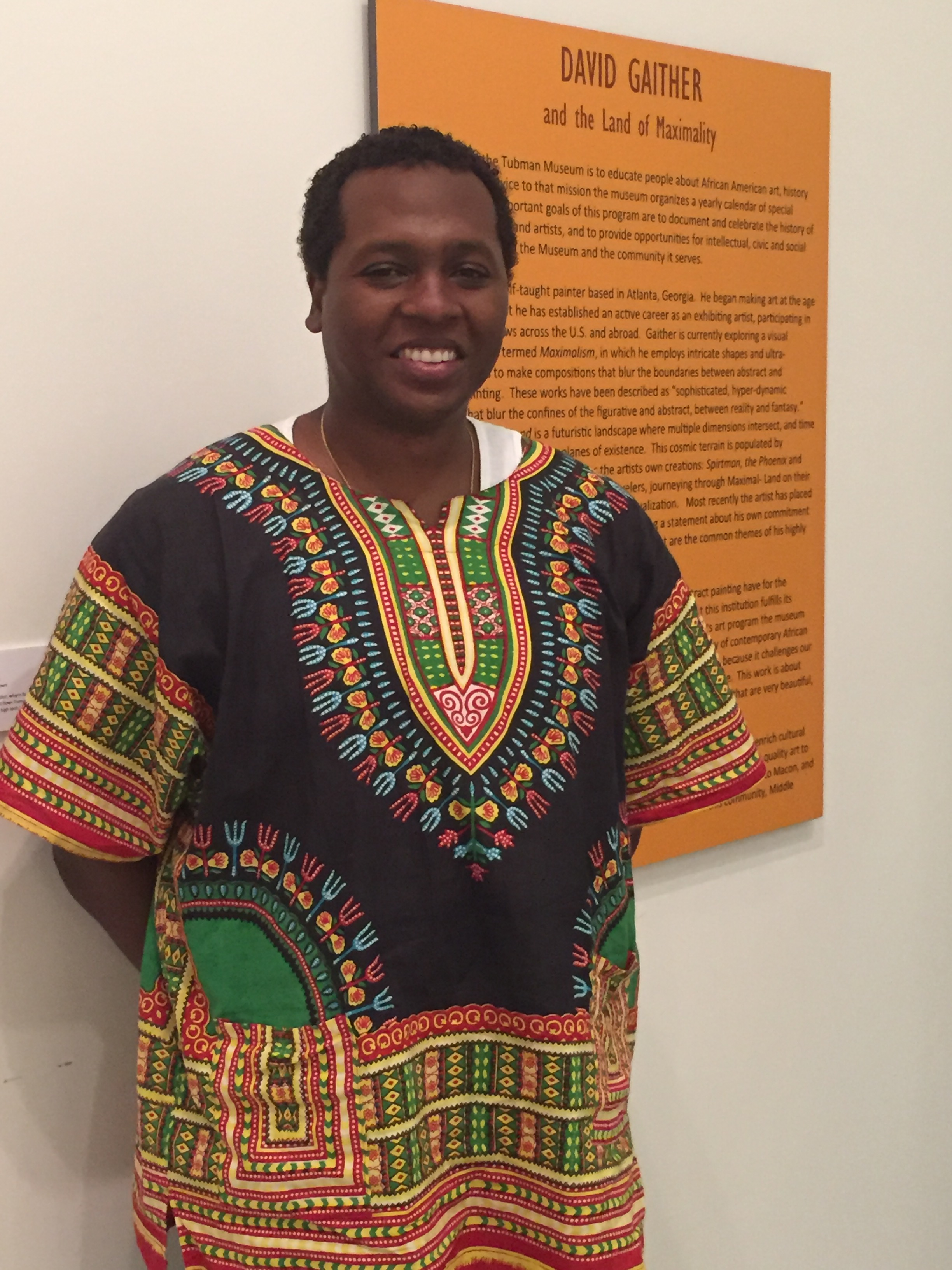 Photo of David Gaither at The Tubman Museum